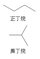 i-butane and n-butane